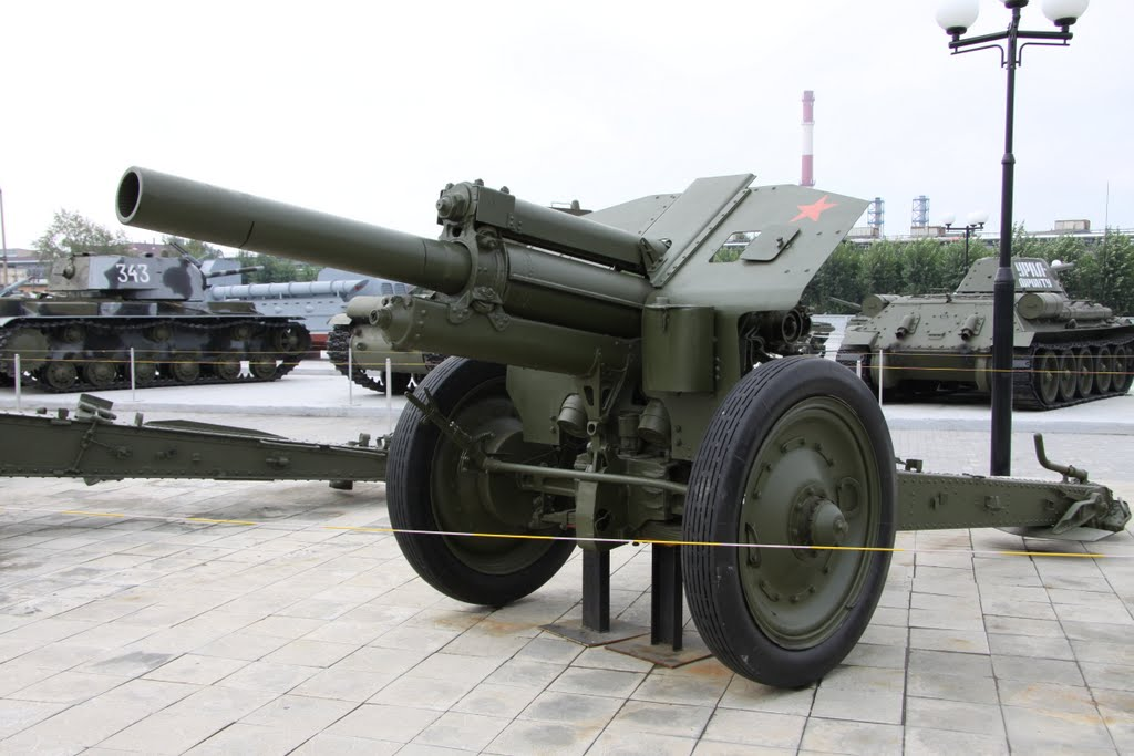 Verkhnyaya Pyshma Tank Museum 2011